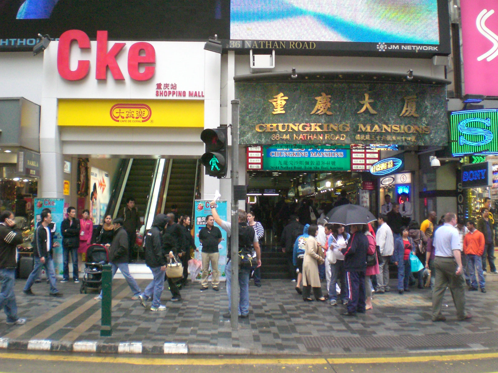 Cke Shopping Mall, Cafe de Coral, and Chunking Mansions - Nathan Road, Tsim Sha Tsui